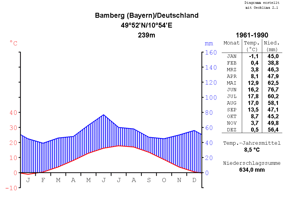 climate chart of Bamberg, Bavaria, Germany, for the period of time from 1961 to 1990, in the format by Walter and Lieth, metric, °Celsius and millimeters, chart made with Geoklima 2.1, label in German